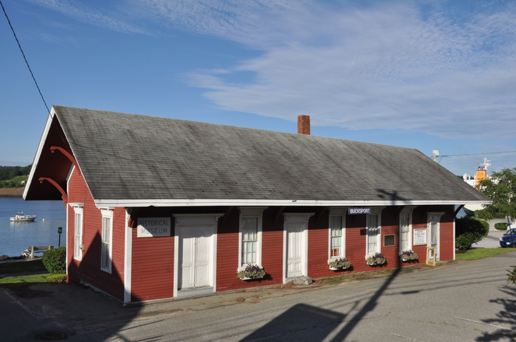 Bucksport Railroad Station (now the historical society), Bucksport, Maine.